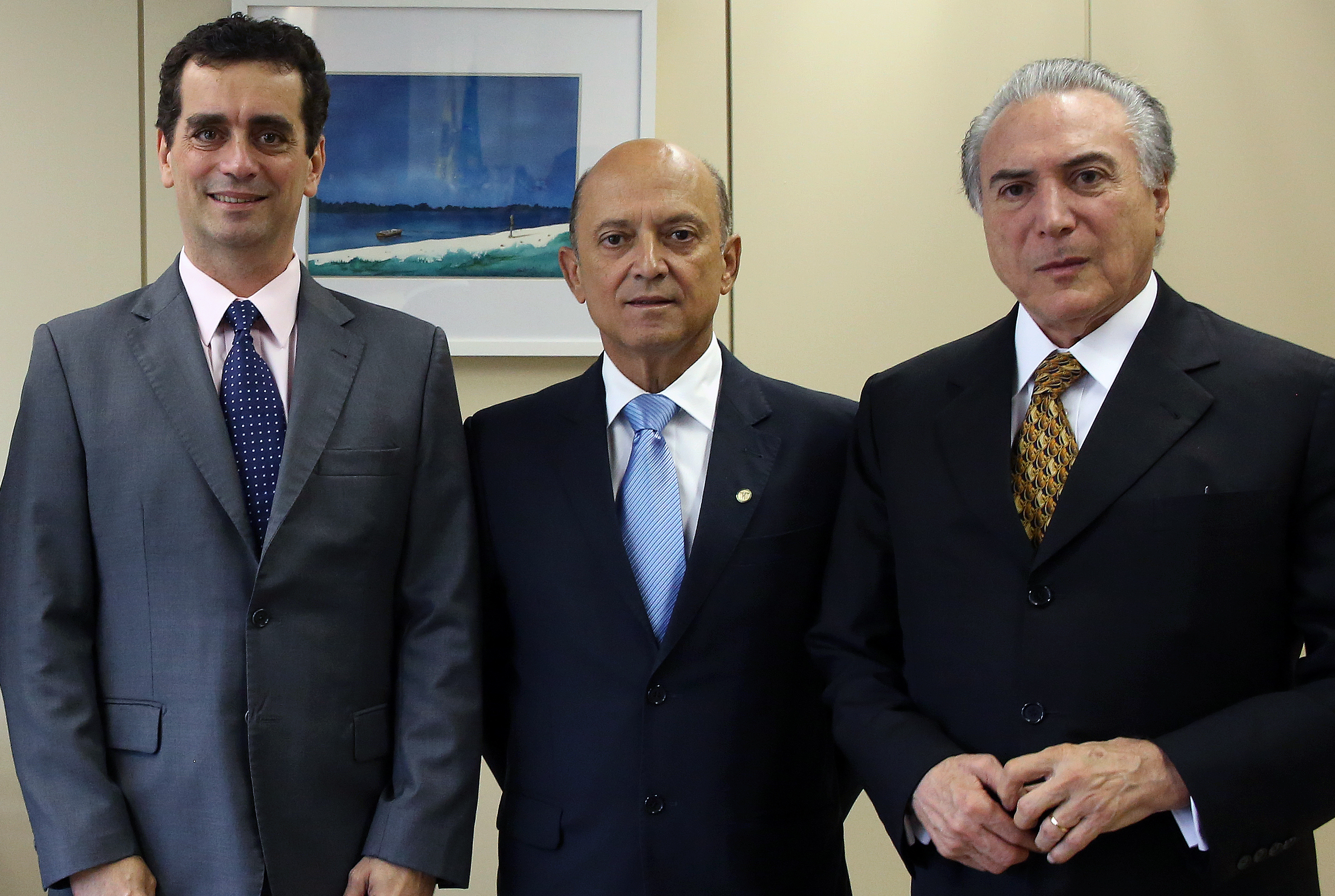 26-03-2014 Vice-presidente Michel Temer recebe o Dep. Lelo Coimbra e Ricardo Vescovi, Diretor Presidente da SAMARCO. (cropped)